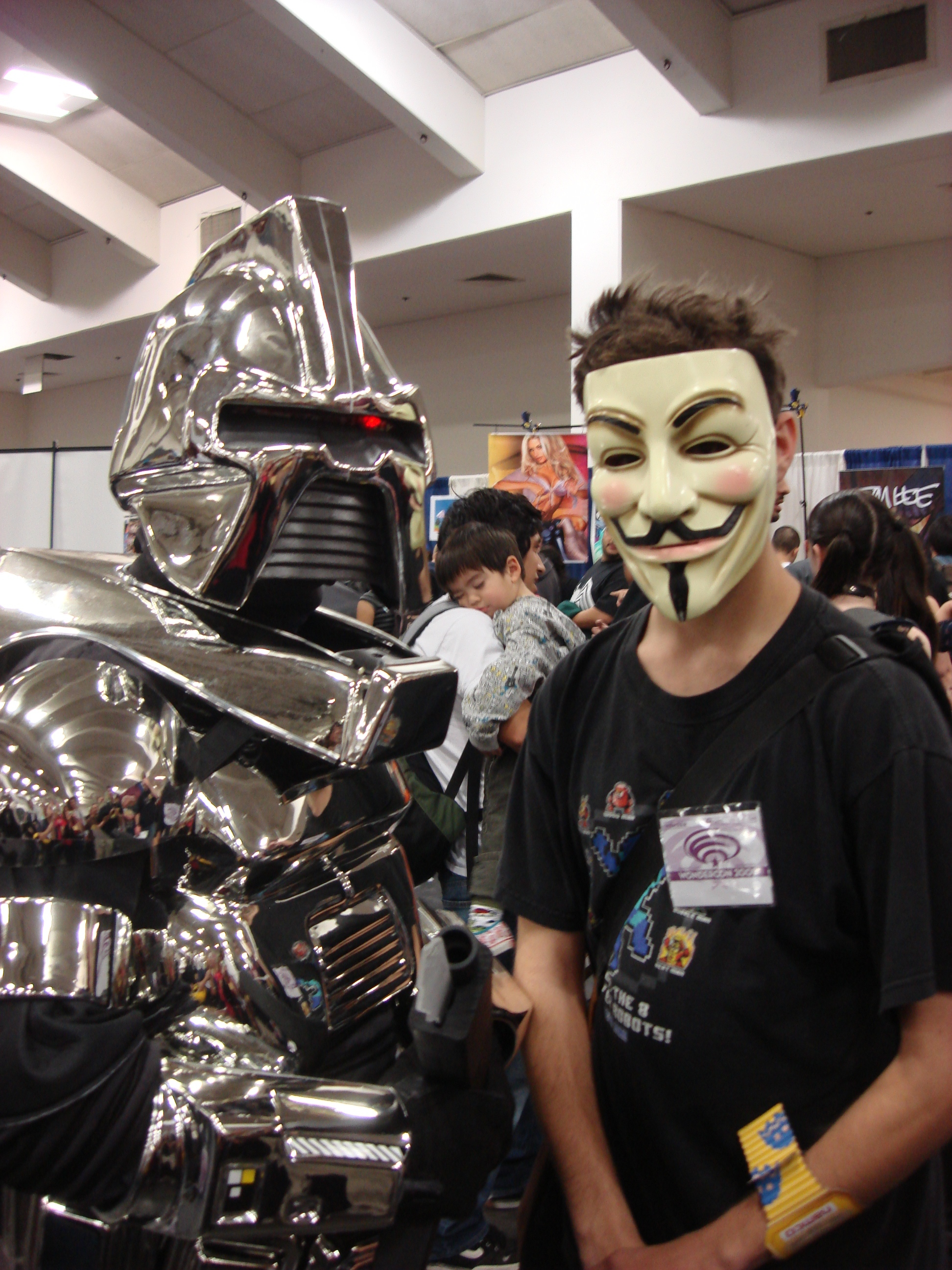 Anonymous and Cylon